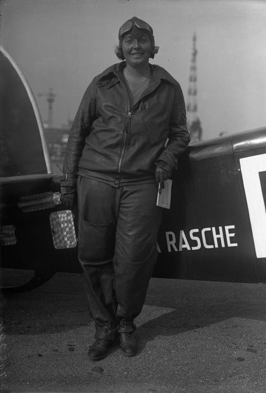 Information added by Wikimedia users.